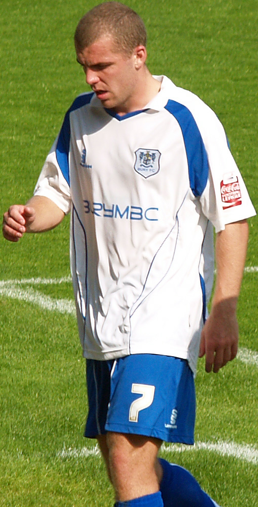 Stephen Dawson. Image cropped from original at flickr.